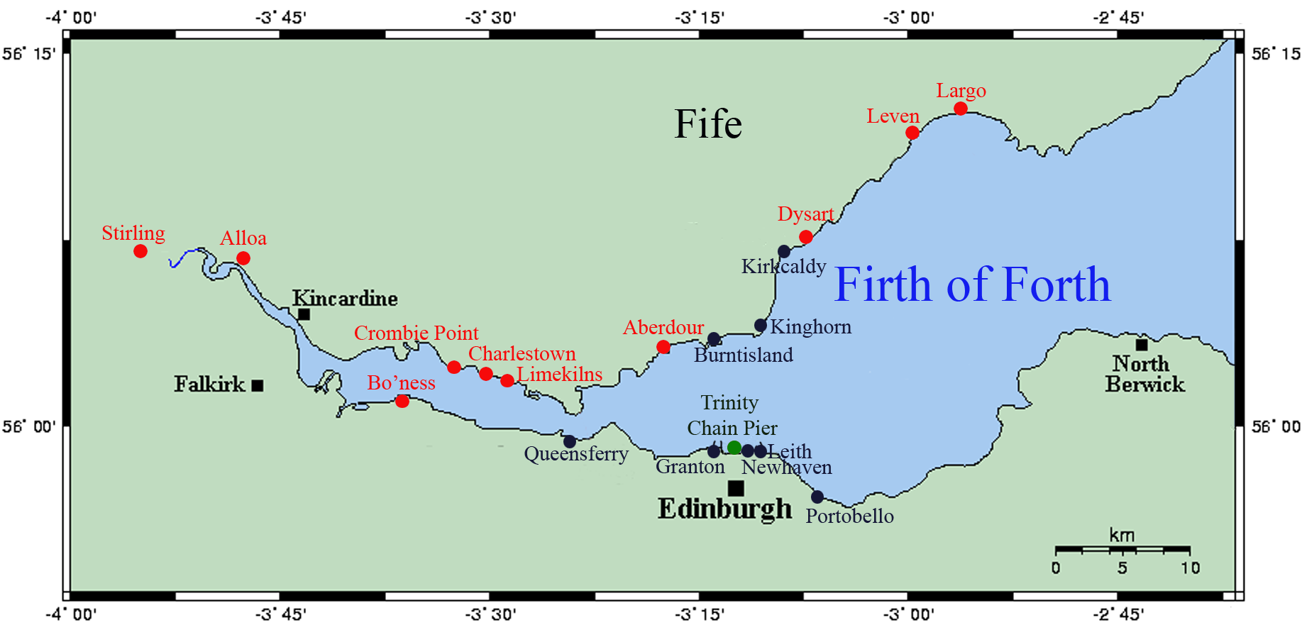 Map of the Firth of Forth showing places relevant to the Trinity Chain Pier